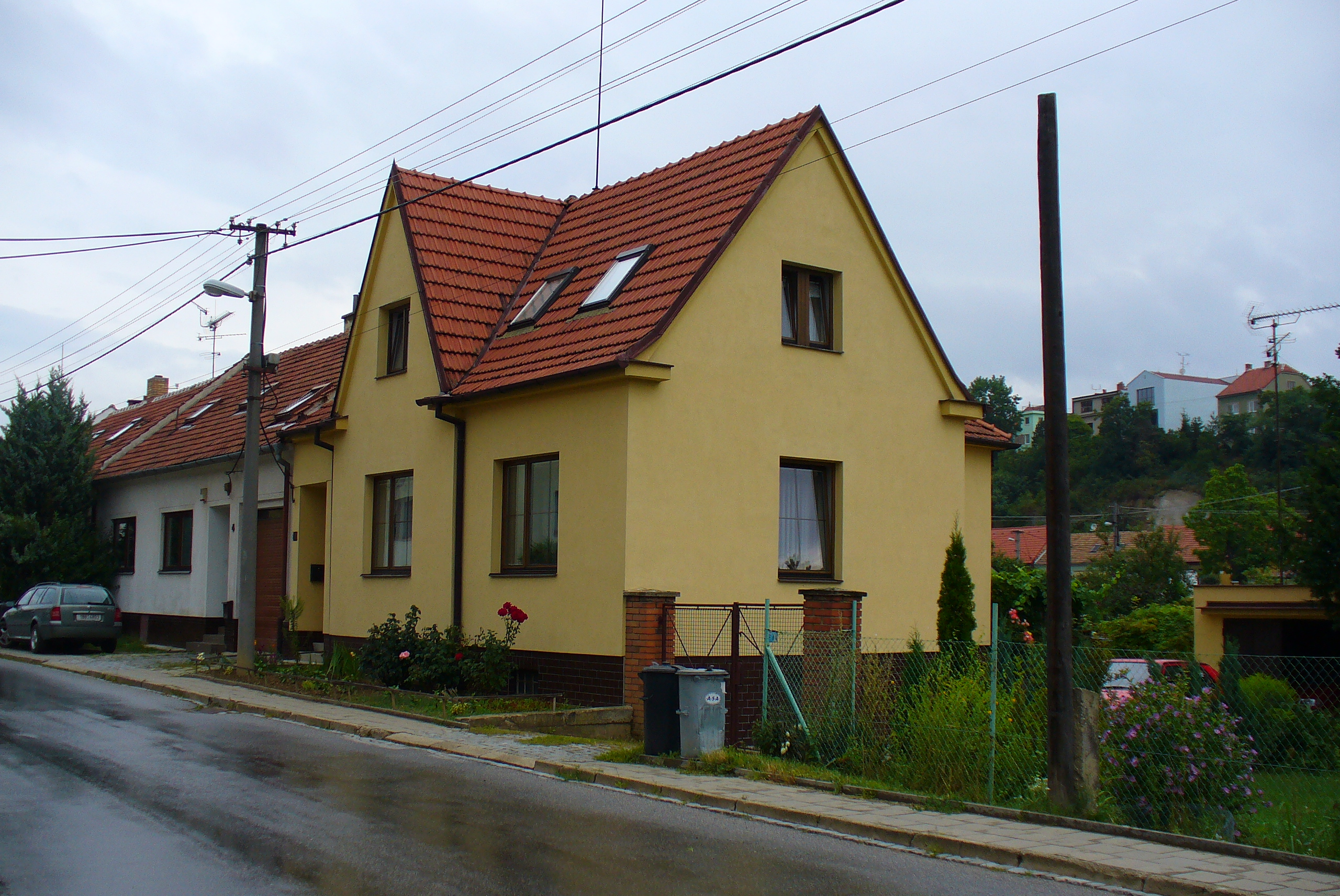 House of family Sec, where part times in years 1942-1944 live illegal life Vojtěch Luža